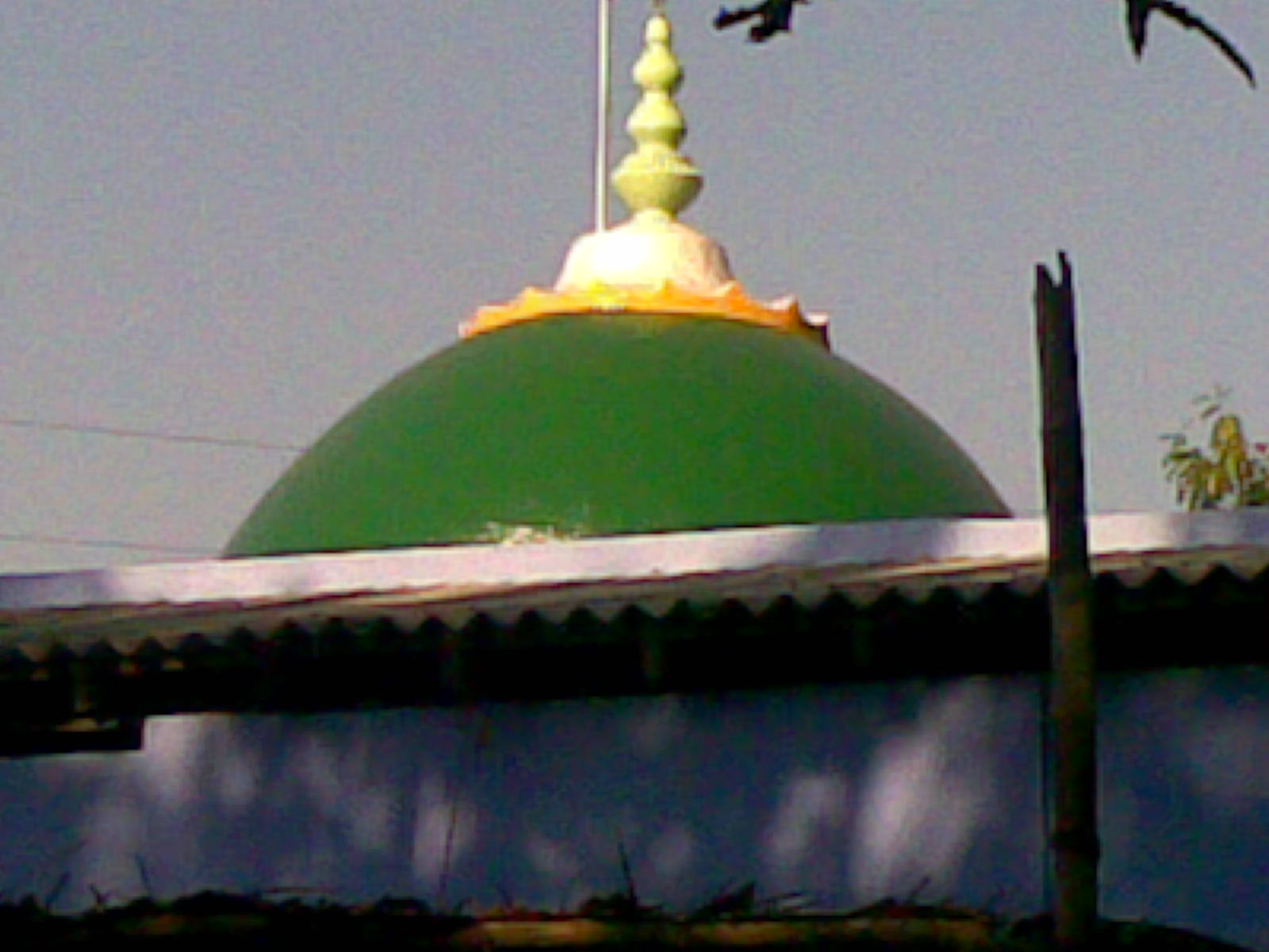 Domeb of the Kanavai dargah